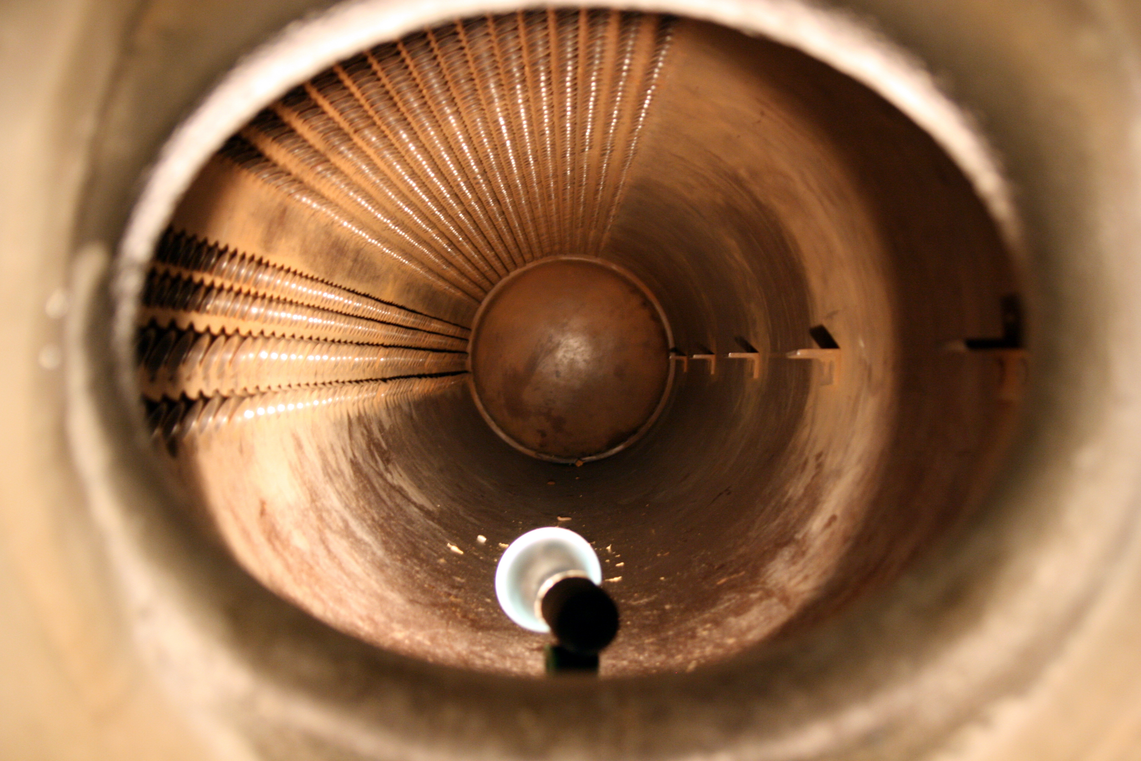 Inside a boiler on HMS Belfast